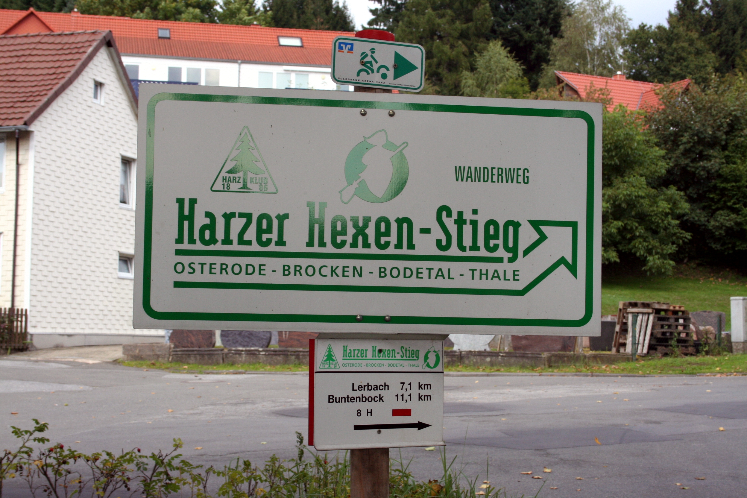 "witch trail Harz" signs at Osterode am Harz, Germany